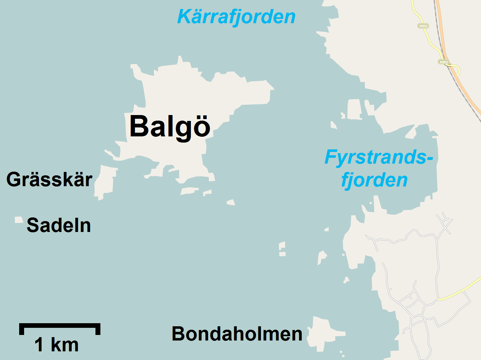 Map of Balgö. This map may be incomplete, and may contain errors. Don't rely solely on it for navigation.